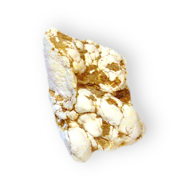 These mineral images are free to use how you wish.